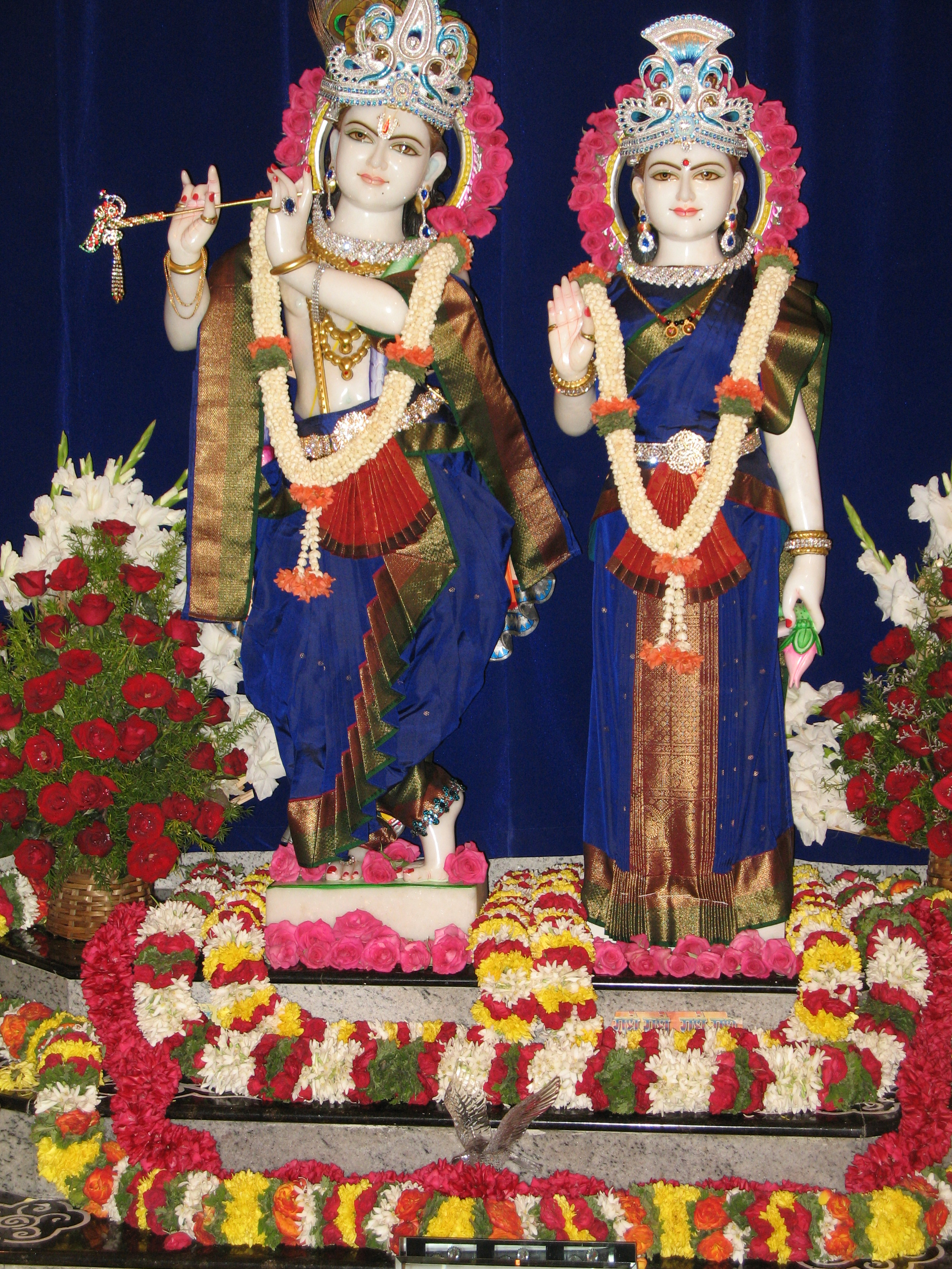 Radha-Krishna